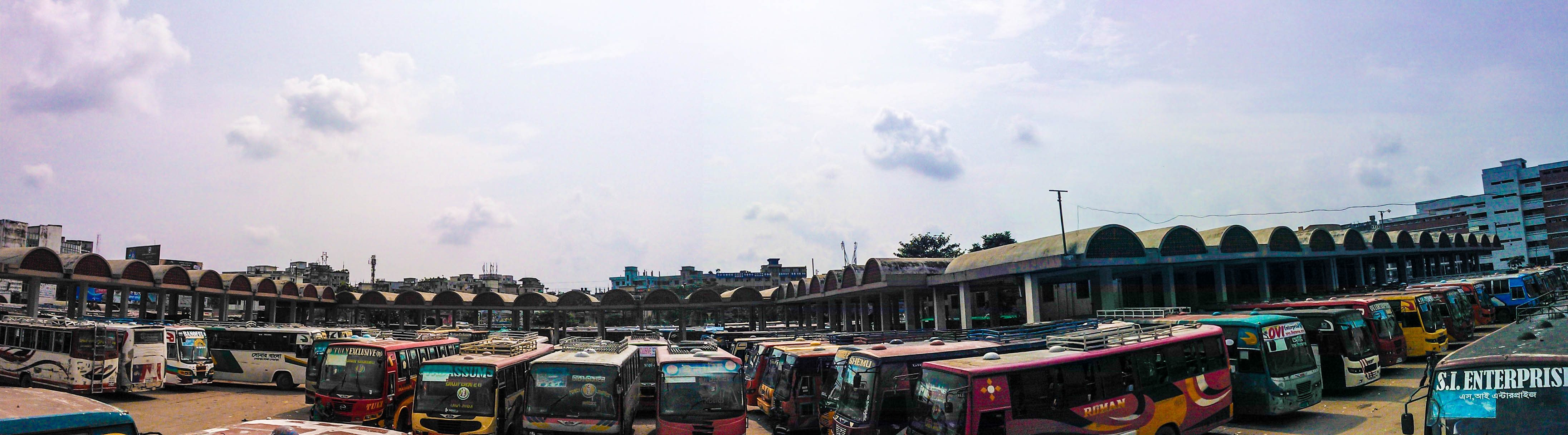 Mohakhali Bus Terminal, Dhaka.